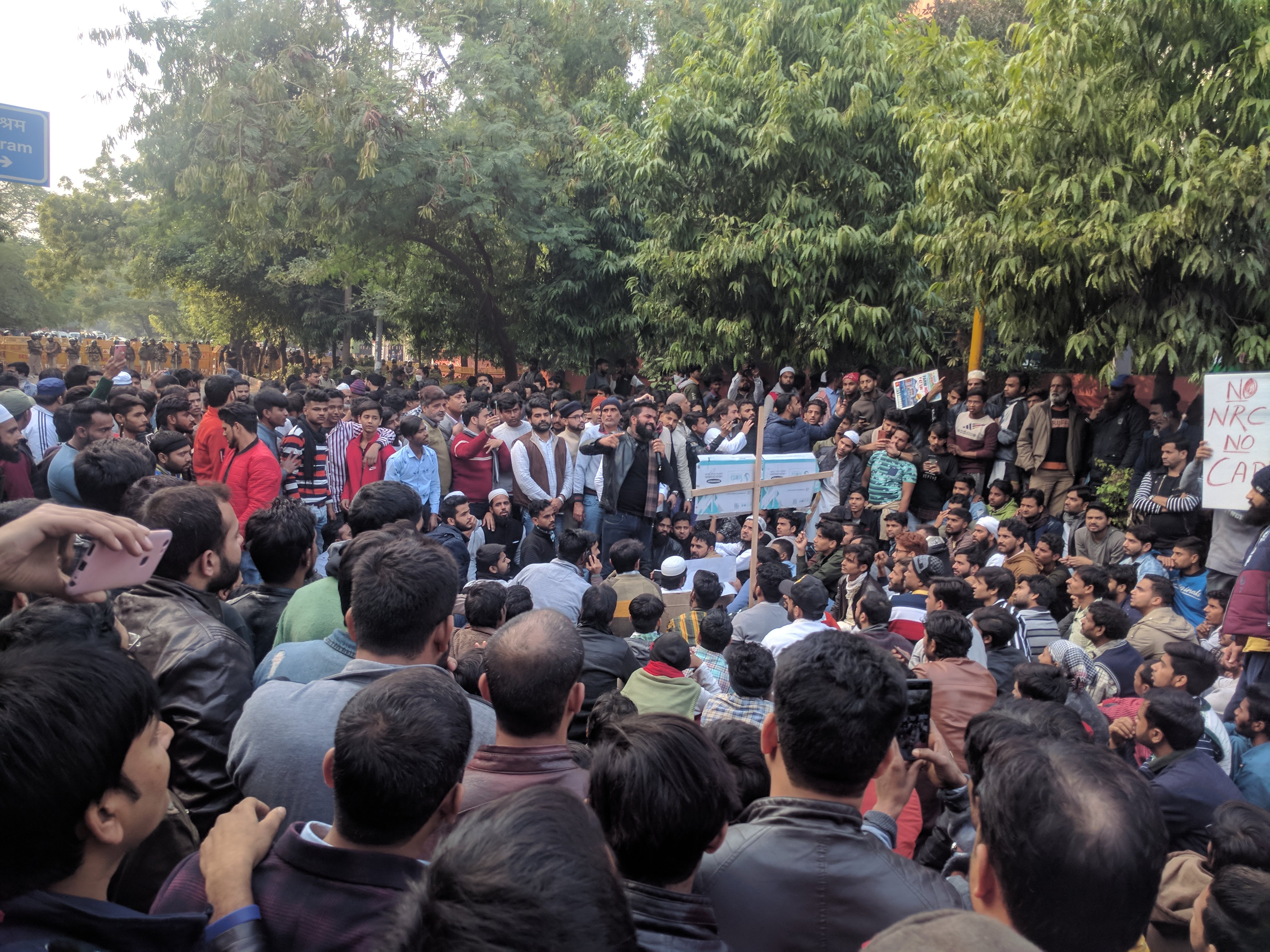 Jamia Millia Islamia students and locals protesting against CAA NRC. Block roads. Police presence.